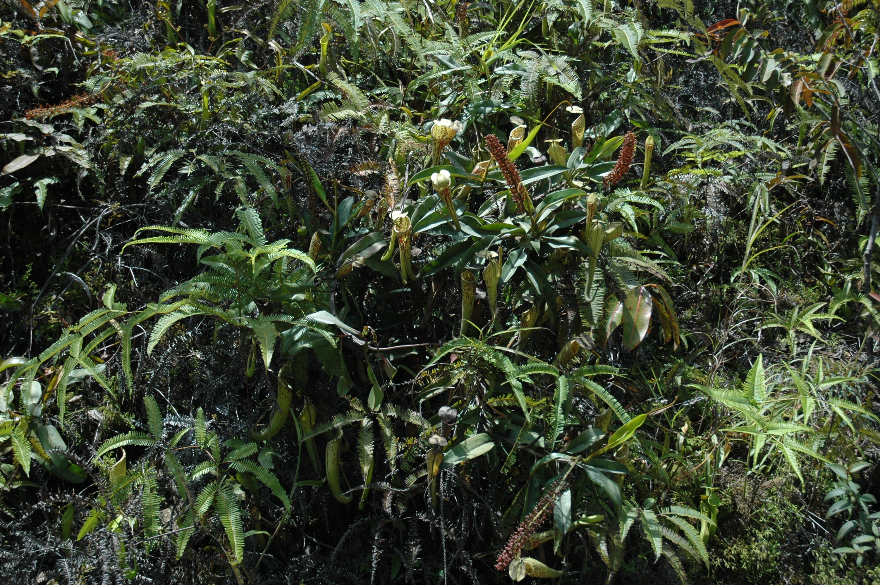 Nepenthes stenophylla and Nepenthes fusca on a logging road going to Gunung Murud by Jeremiah Harris